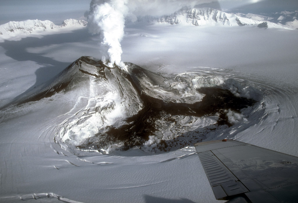 Steam rising from the intracaldera cinder cone at Veniaminof volcano in the waning stages of the 1983 to 1984 eruption. Cooling lava flows fill a pit about 2.3x1.0 km (1.4x0.6 mi) that has been melted in the summit ice cap. Aerial view looking northeast.